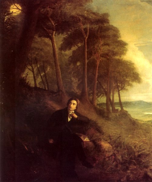 Portrait of Keats, listening to a nightingale on Hampstead Heath